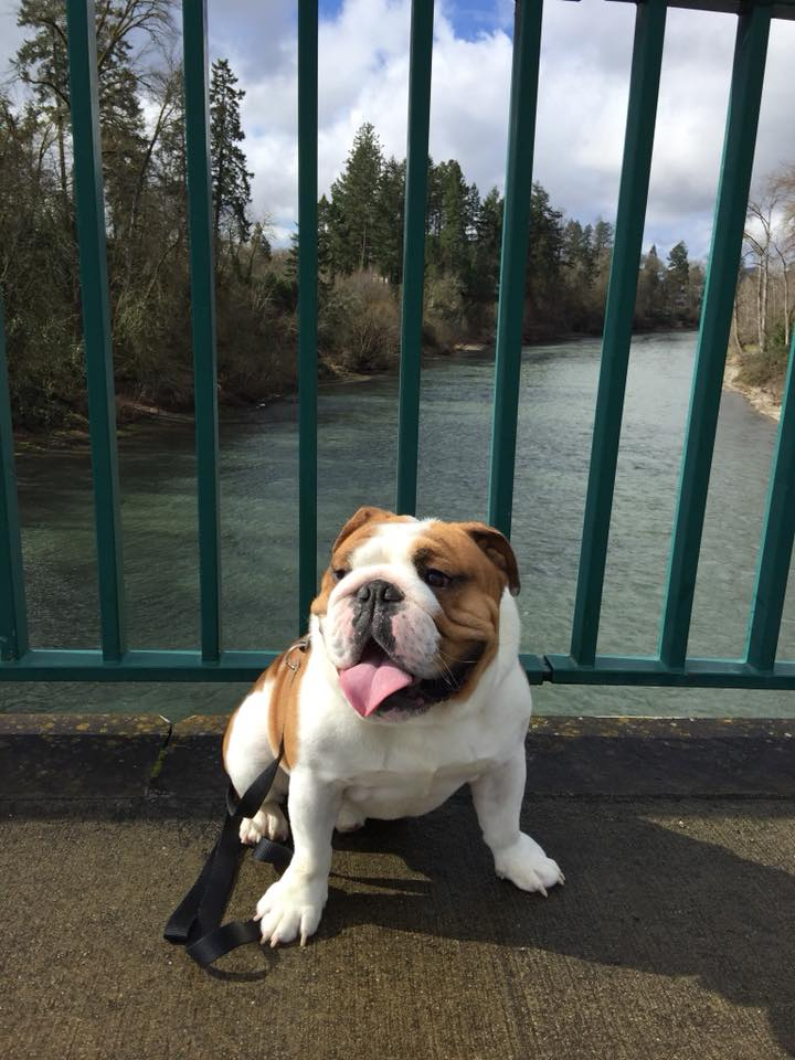 Emotional support dogs are commonly used for relaxation and promoting health